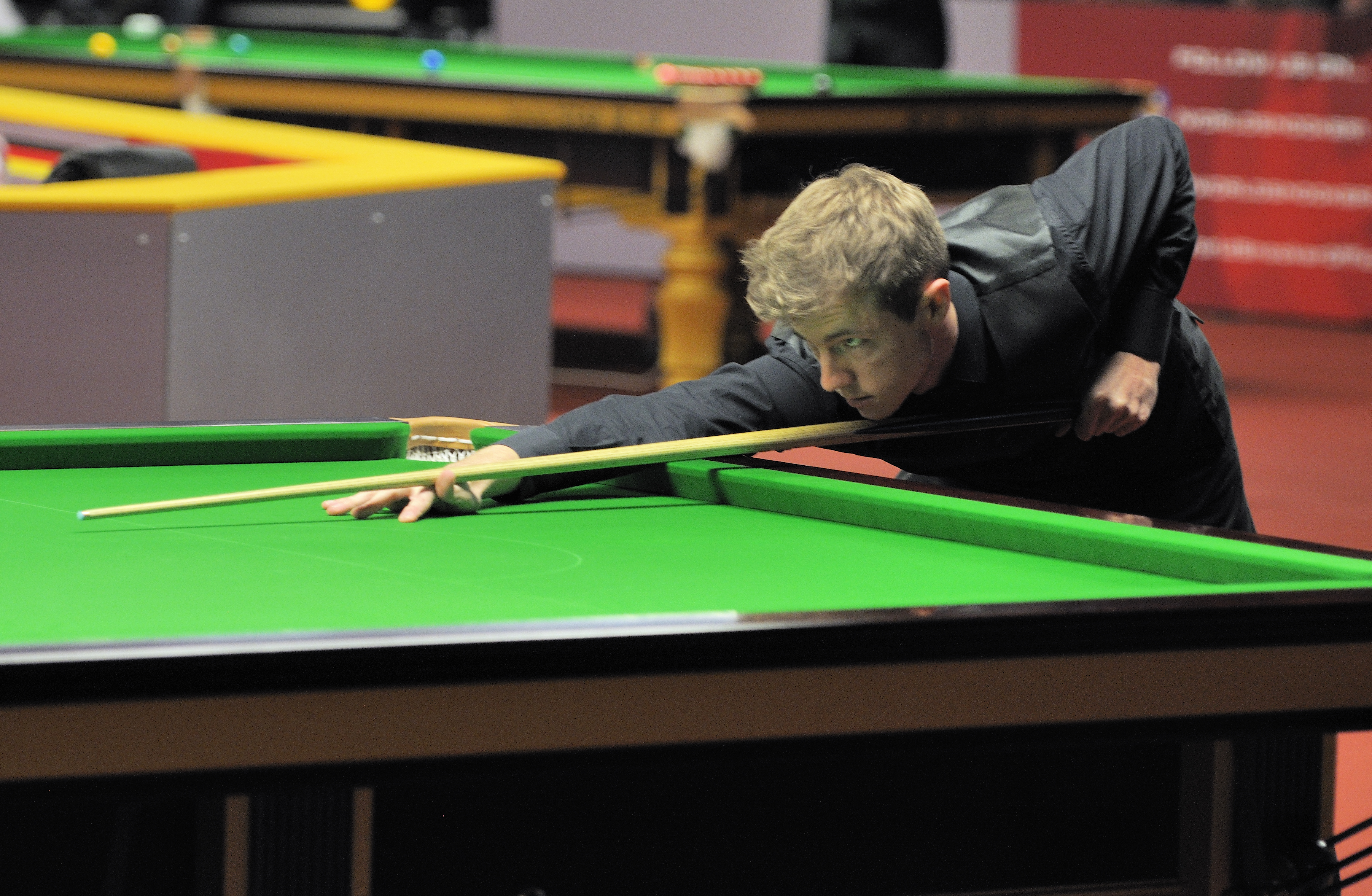 Picture taken in Berlin during the Snooker German Masters in 2014. Jack Lisowski.